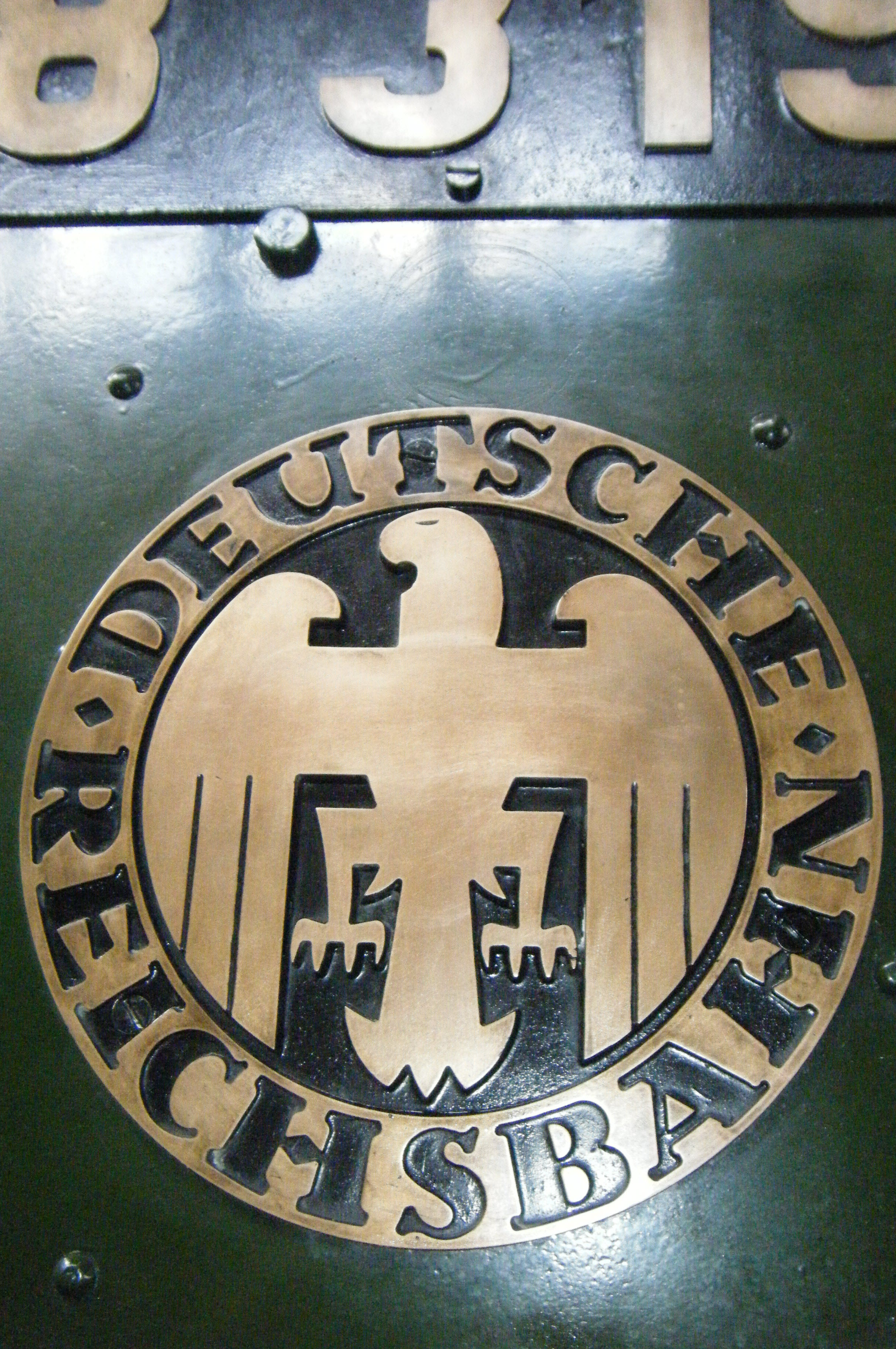 Apart from the Reich railway system of Alsace-Lorraine, which went to the Société nationale des chemins de fer français, in 1920 the State Railways of Prussia (including Hessen), Bavaria (including the Palatinate), Saxony, Baden, Wurttemberg, Oldenburg and Mecklemburg unified to form Deutsche Reichsbahn-Gesellschaft, nominally private company where all the shares were owned by the state.